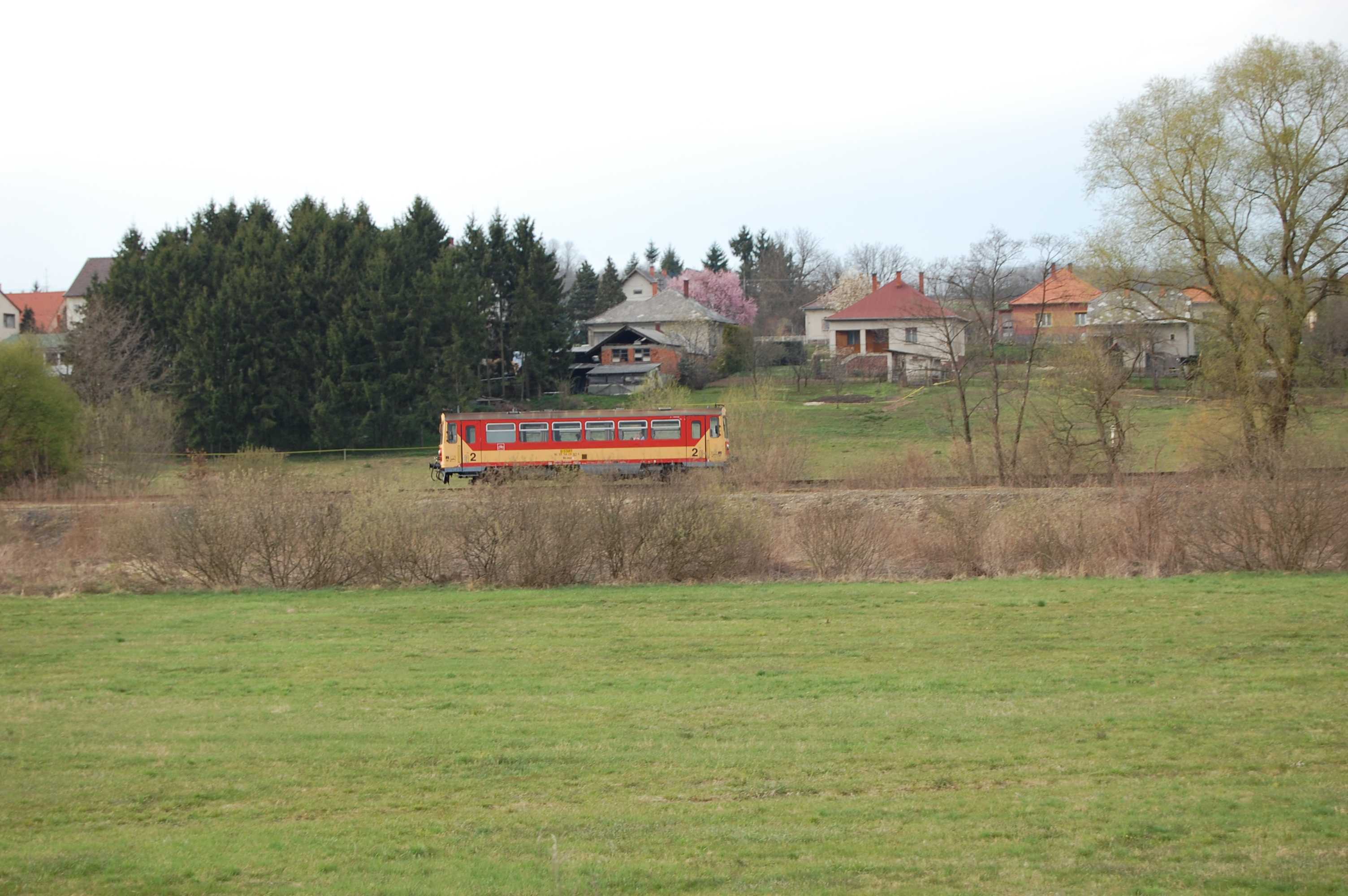 Bzmot on the Körmend-Zalalövő railway line, Hungary